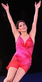 Stars on Ice in Halifax 2010.